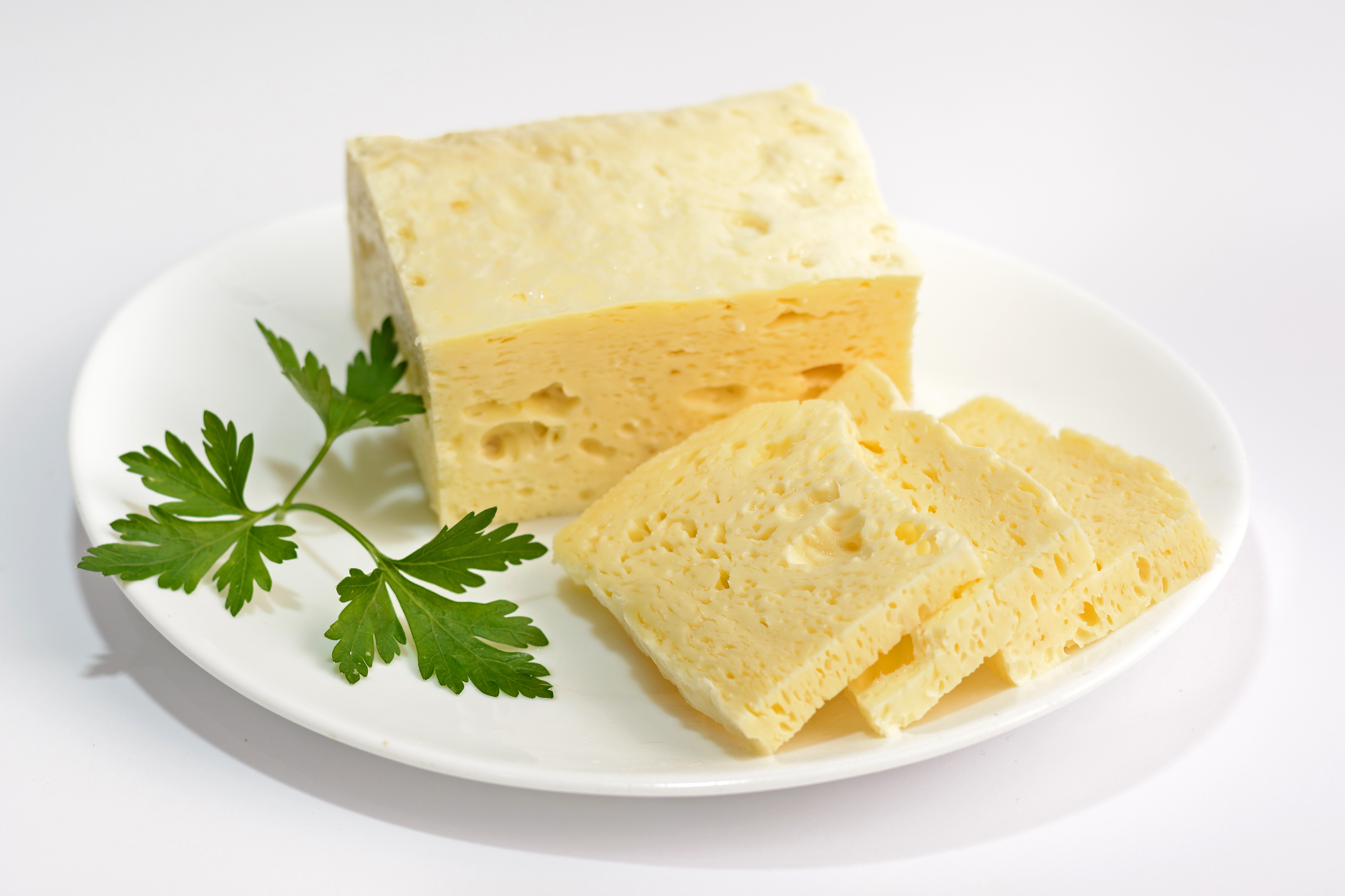 Hard cheese